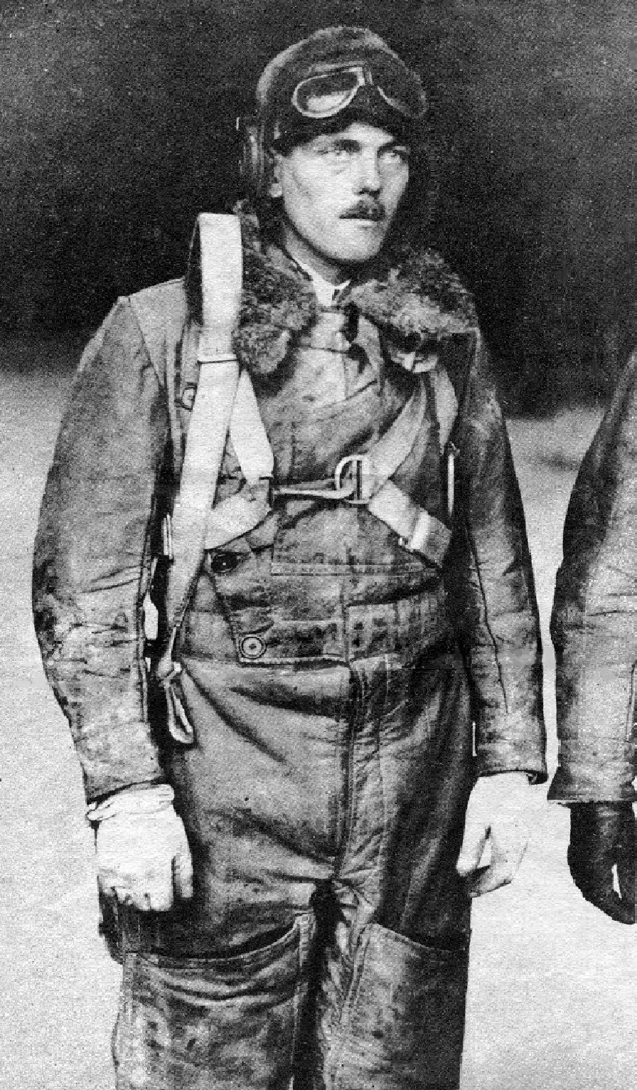 The British pilot Mackenzie Richards